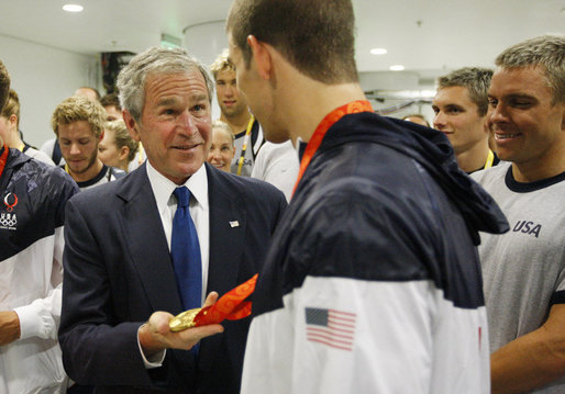 President George W. Bush holds the Olympic gold medal of U.S. Olympic swimmer Michael Phelps, after congratulating Phelps on his first Olympic gold performance Sunday, Aug. 10, 2008, at the National Aquatics Center in Beijing.